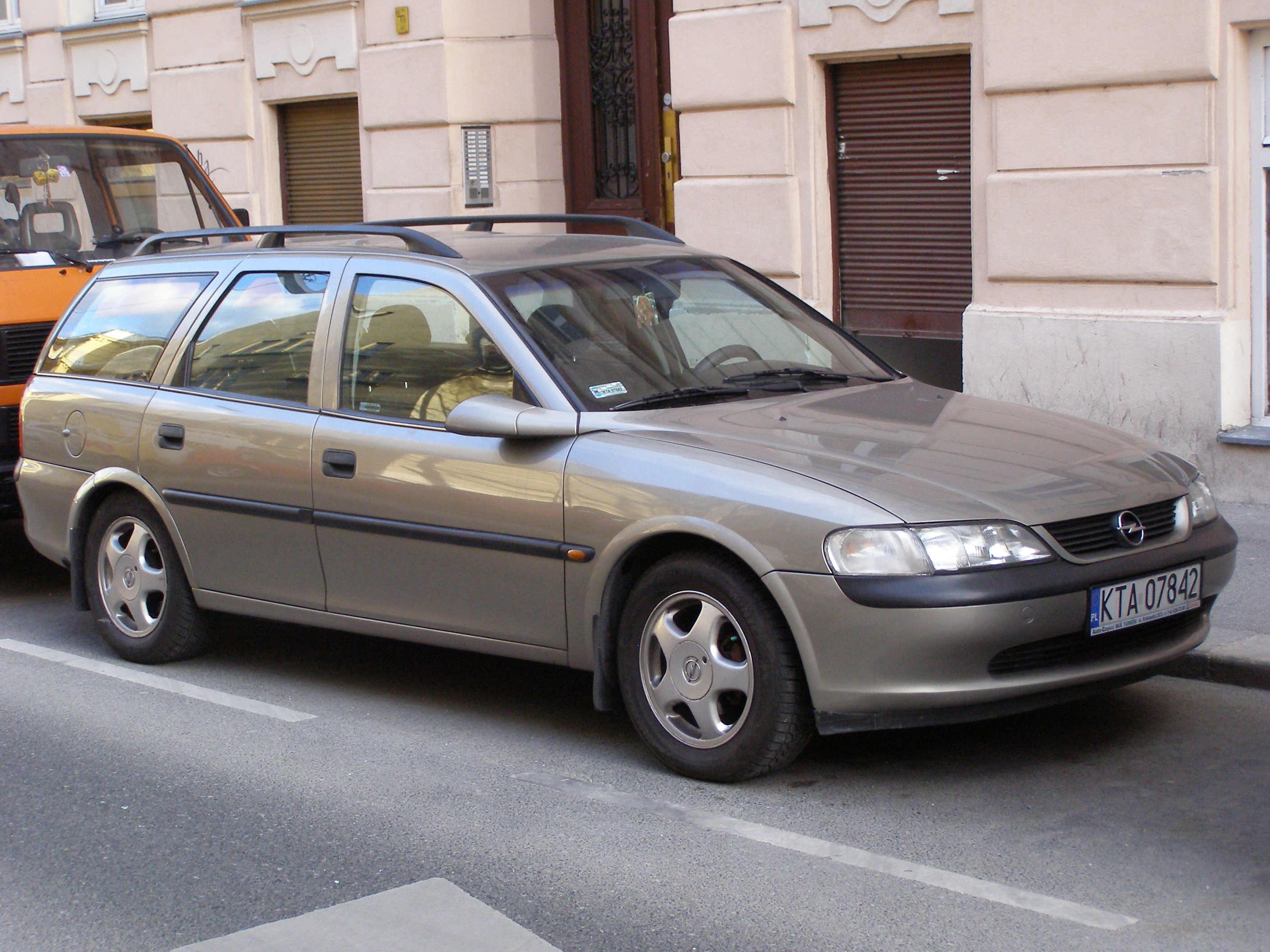 Vienna - Opel Vectra combi at Ratschkygasse